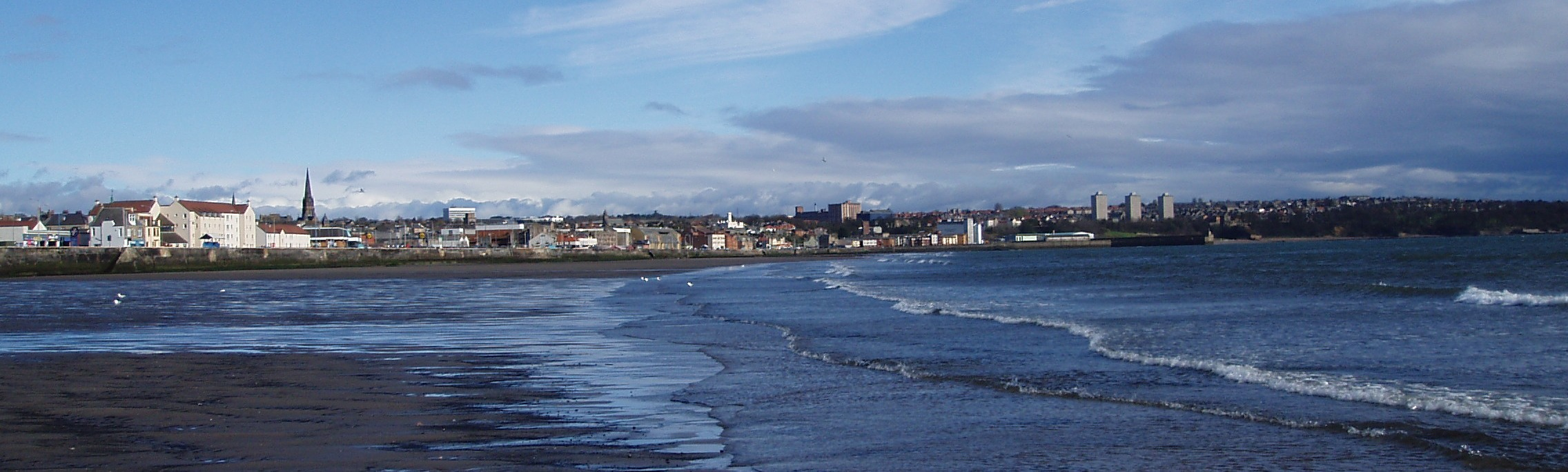 Panoramic view of the Kirkcaldy Bay and Waterfront area